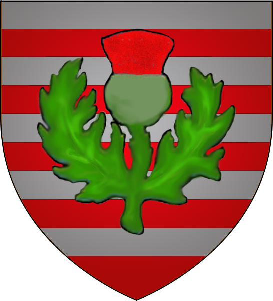 Coat of arms of the municipality of Neunhausen, Luxembourg (valid until 1 January 2012)